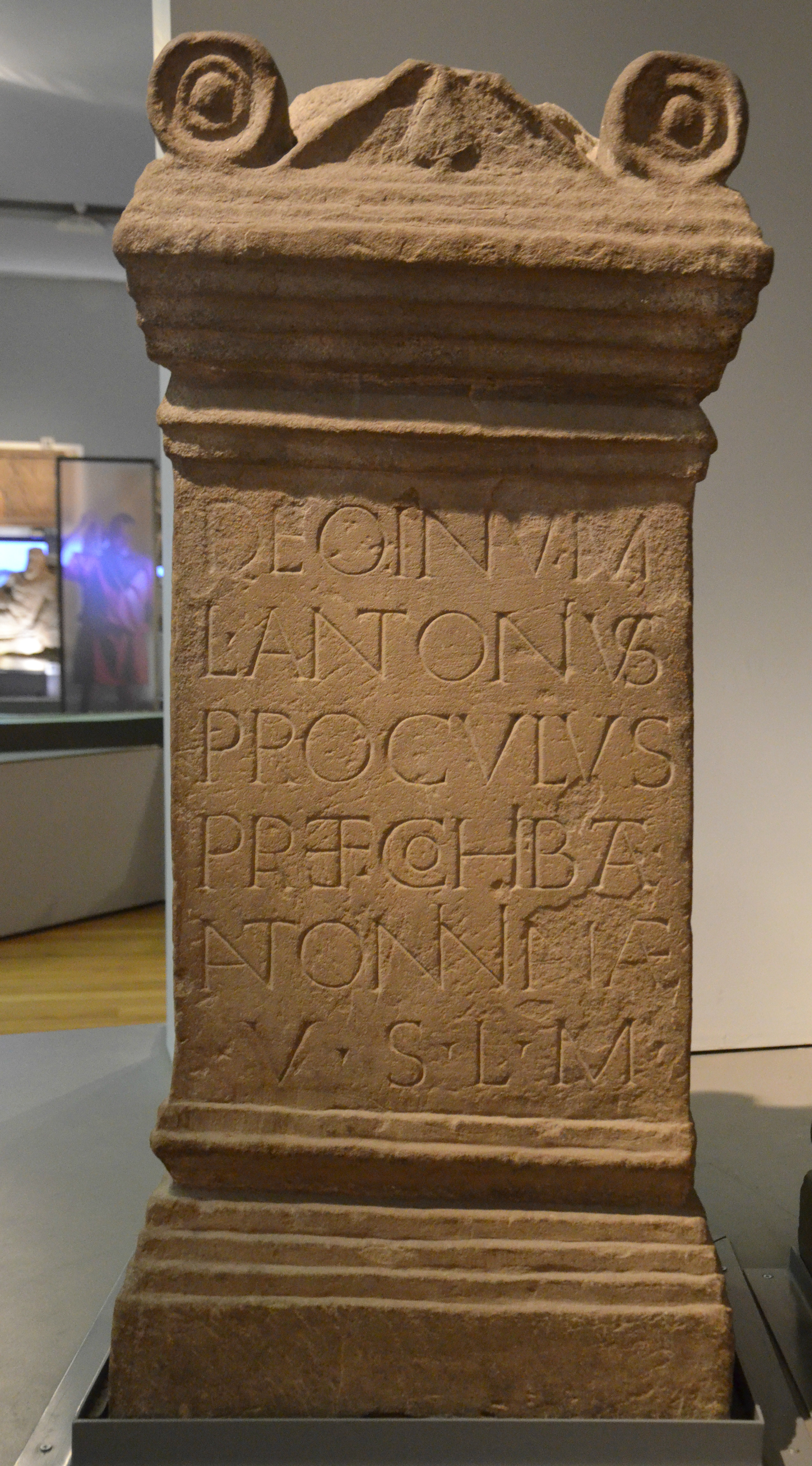 Deo Inv(icto) M(ithrae) L(ucius) Antonius Proculus praef(ectus) coh(ortis) I Bat(avorum) Antoninianae v(otum) s(olvit) l(ibens) m(erito)